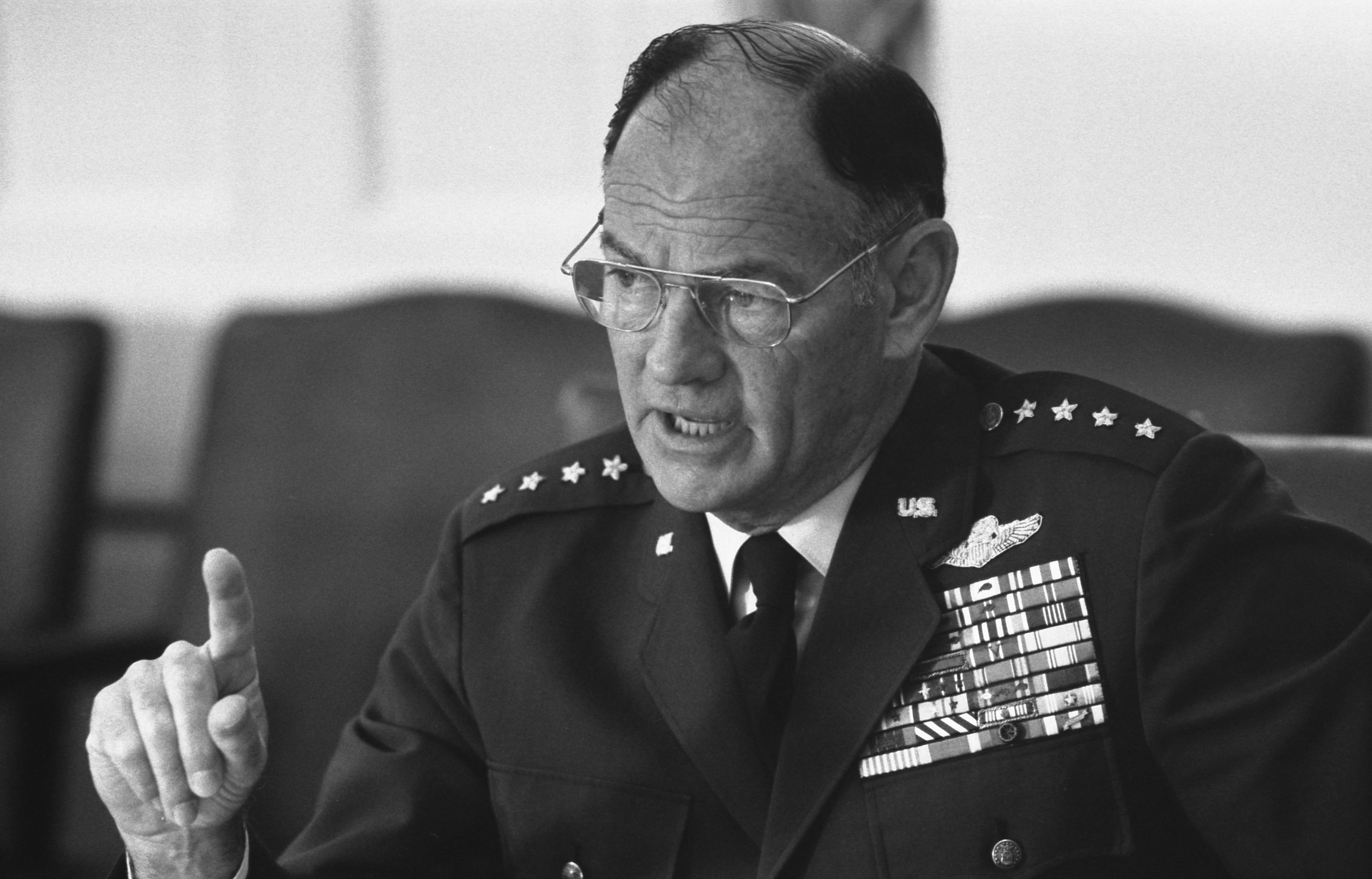 This photograph depicts Chairman of the Joint Chiefs of Staff General George S. Brown making a point at a meeting following the assassinations Ambassador Francis E. Meloy, Jr. and Economic Counselor Robert O. Waring in Beirut, Lebanon.